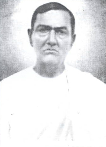 Satish Chandra Basu, the founder of Anushilan Samiti.